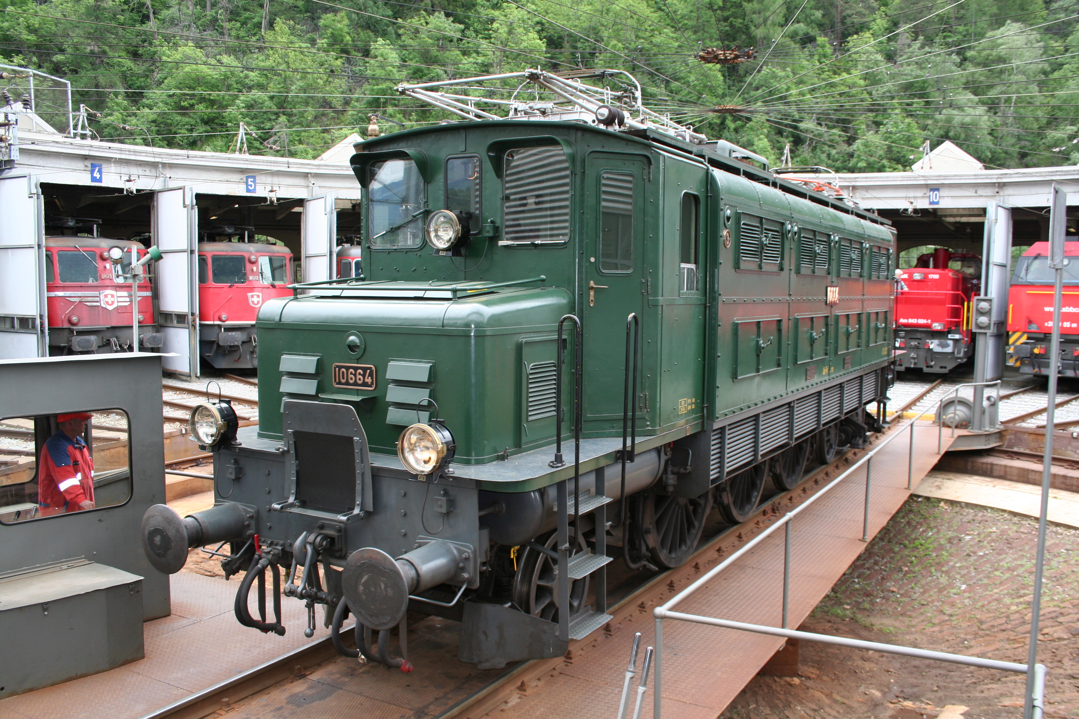 SBB Ae 3/6 I on the turntable at Brig station, on the occasion of the 100 years Simplon tunnel jubilee